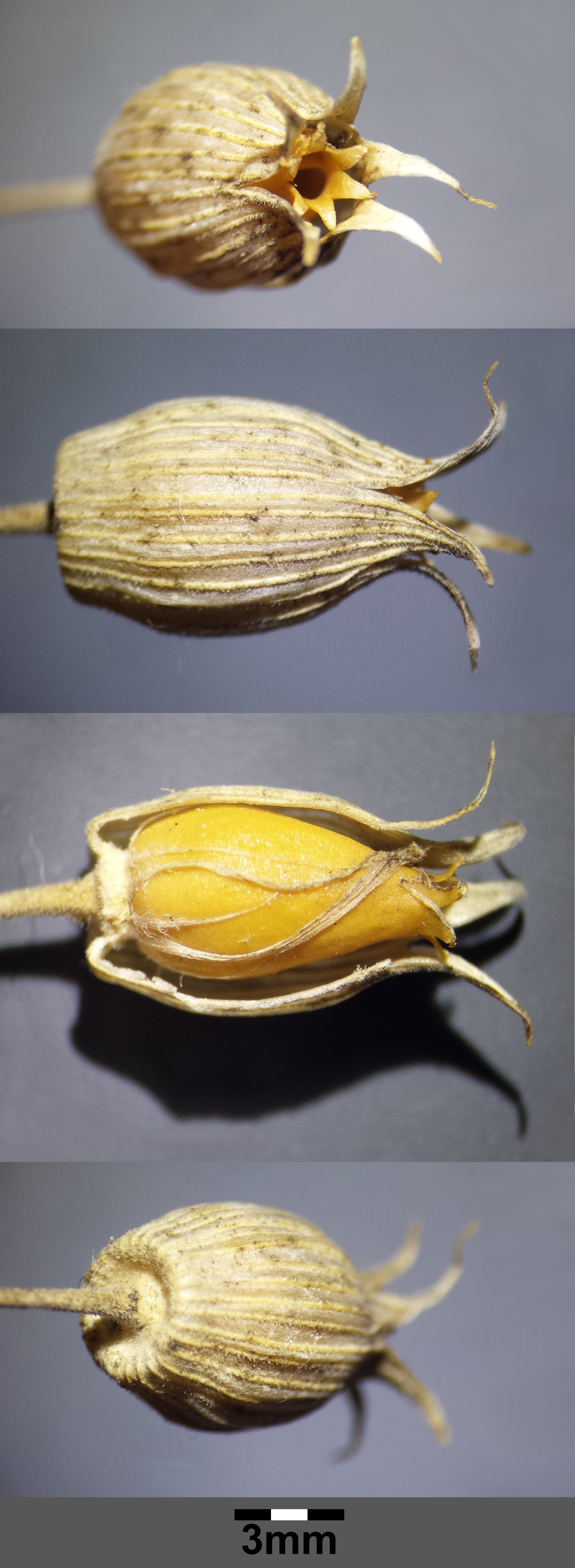 Fruit (leg.: 2015-08-01) Taxonym: Silene conica ss Fischer et al. EfÖLS 2008 ISBN 978-3-85474-187-9 Location: Haulesbergen, district Mistelbach, Lower Austria - ca. 200 m a.s.l. Habitat: dry grassland